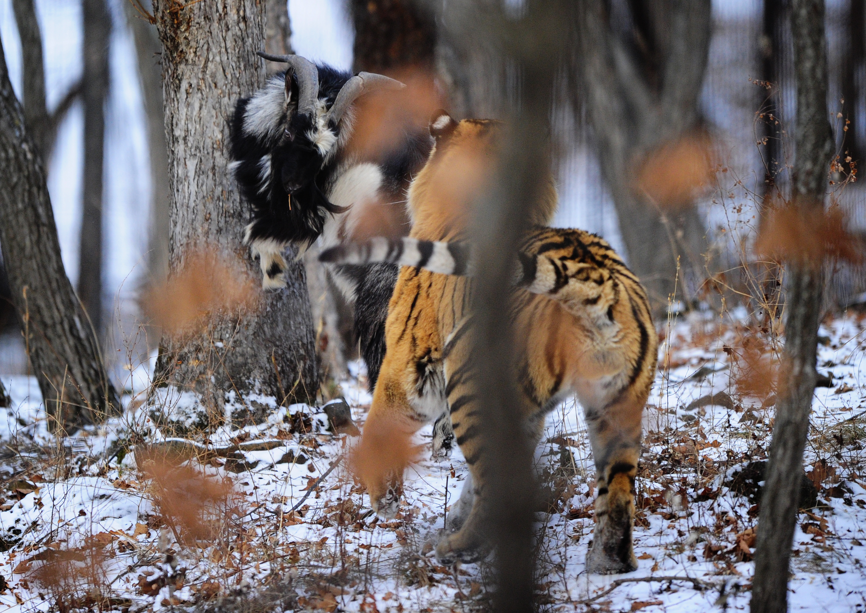 Amur and Timur